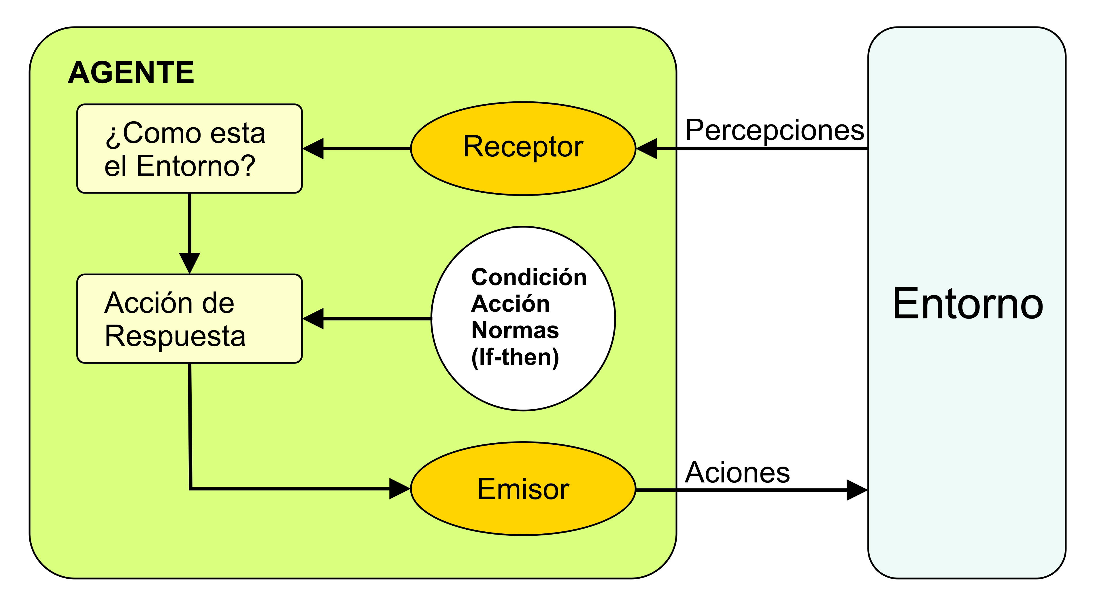 intelligent agent